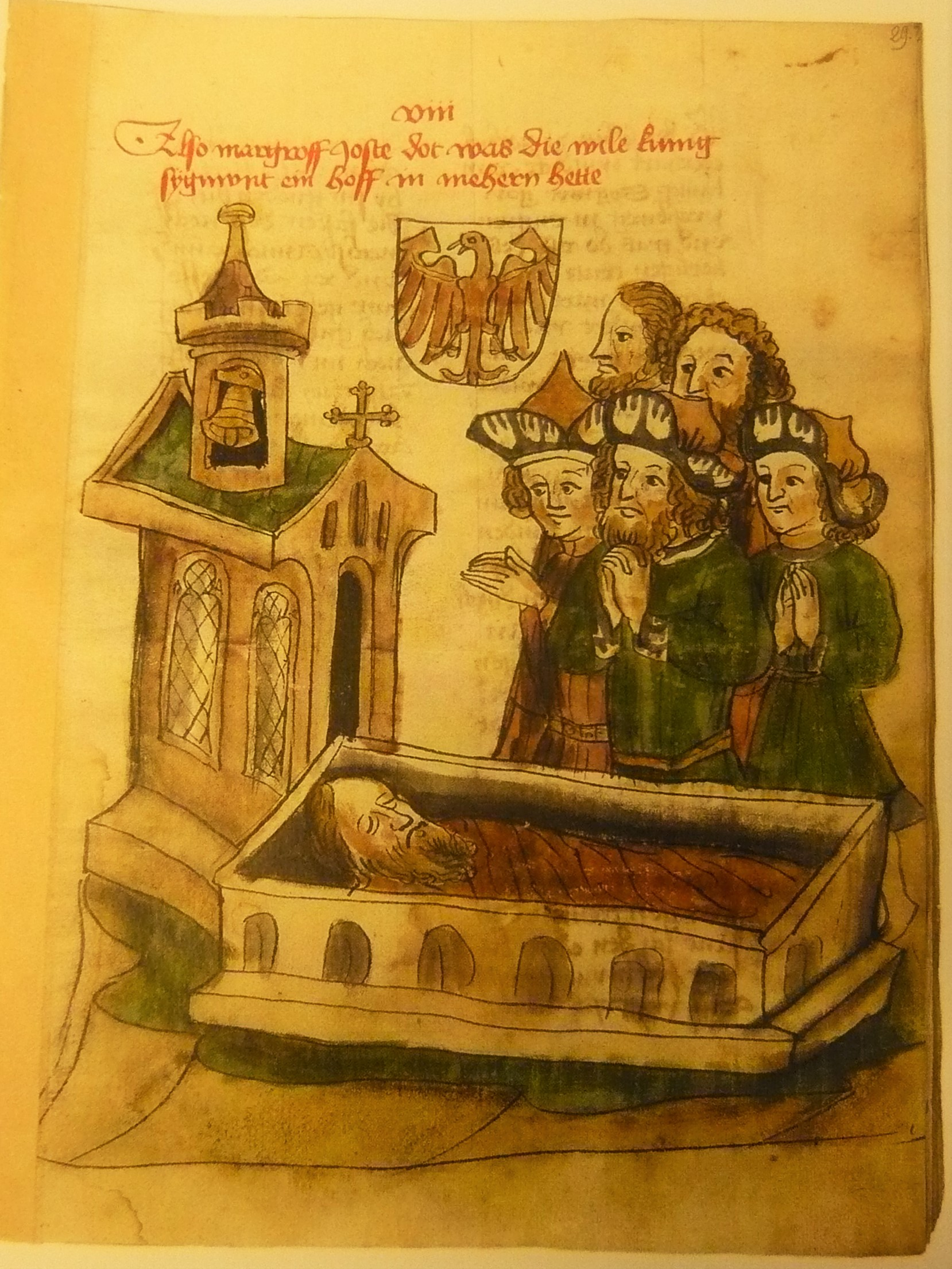 Jodok of Moravia burial, Brno Jan. 1411